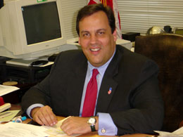 Christopher J. Christie, U.S. Attorney, Governor-elect of New Jersey